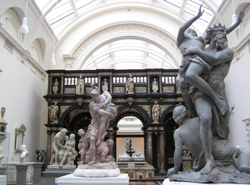 V&A - Sculpture Gallery. Despite the image name, all these are original works, no replicas